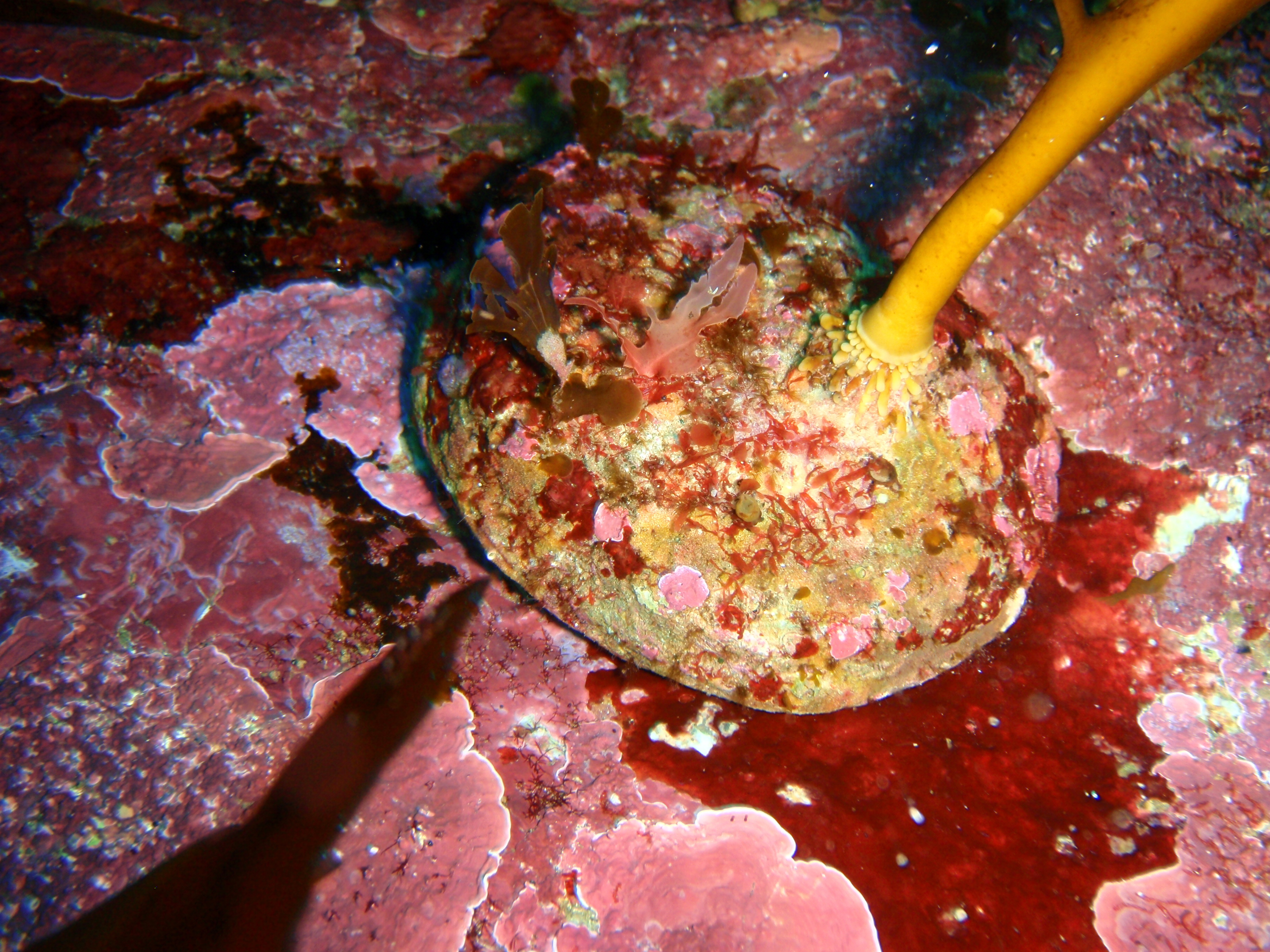 Blacklip abalone Haliotis rubra at Ile des Phoques, Tasmania